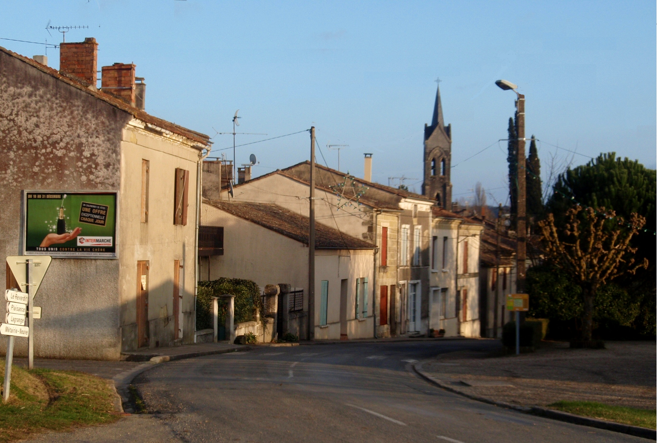 Montignac-de-Lauzun, view from route de Miramont-de-Guyenne